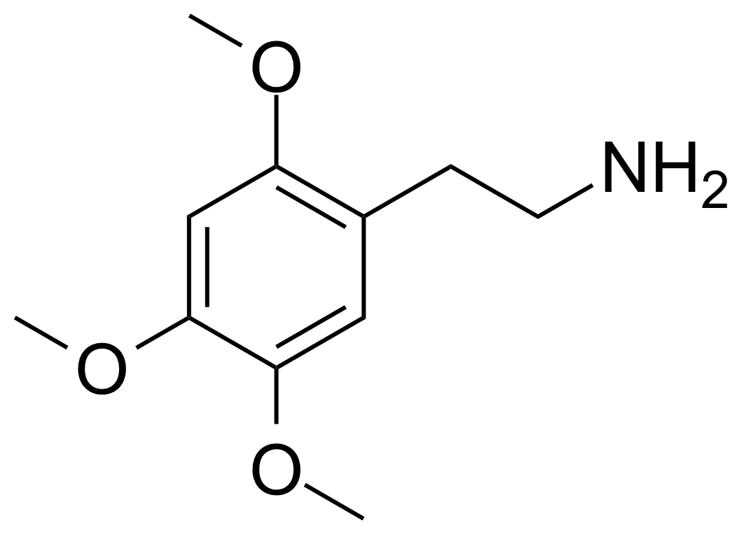 Chemical structure of 2C-O-Chemdraw